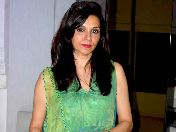 Lillete dubey